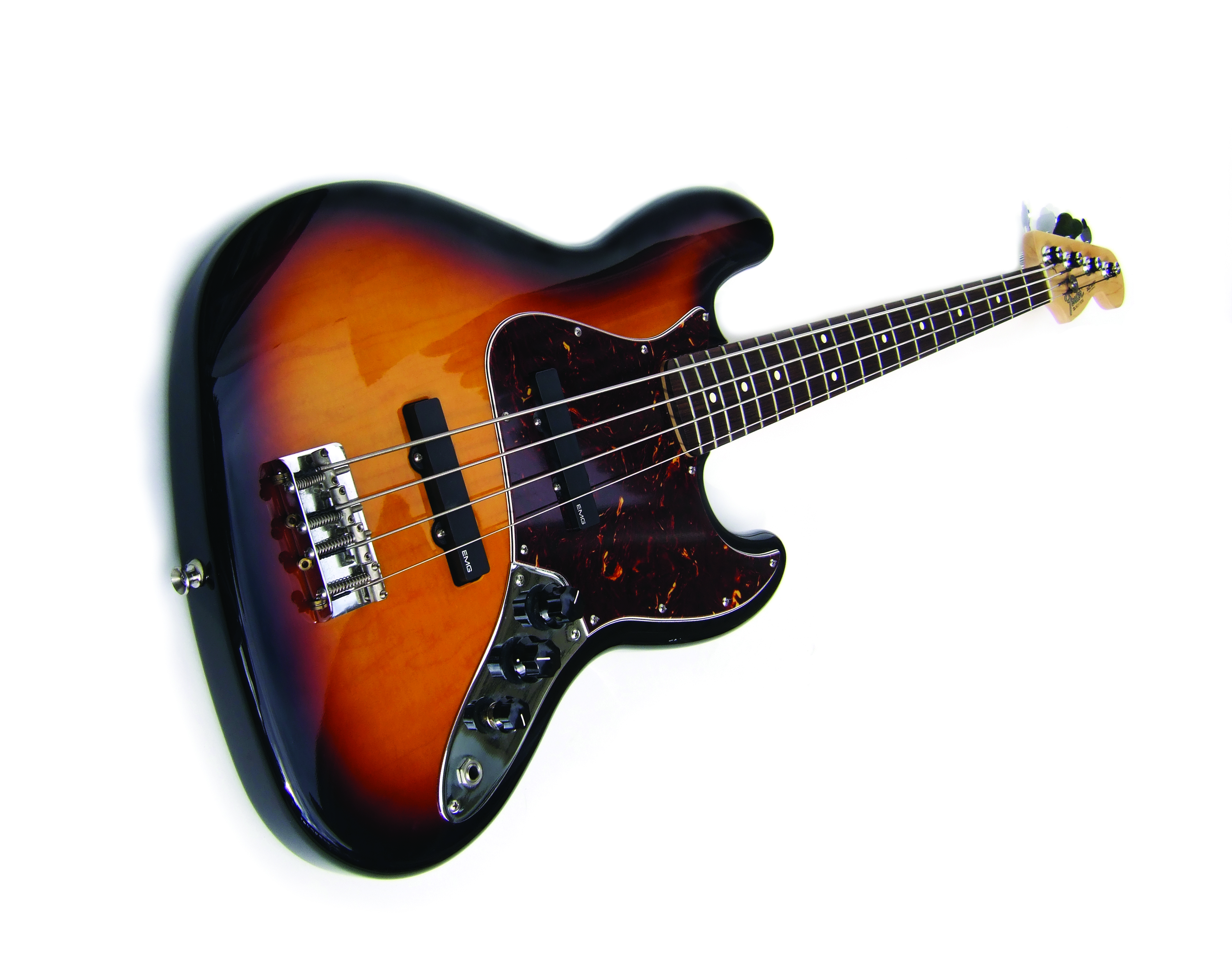 Modified with EMG active pickups